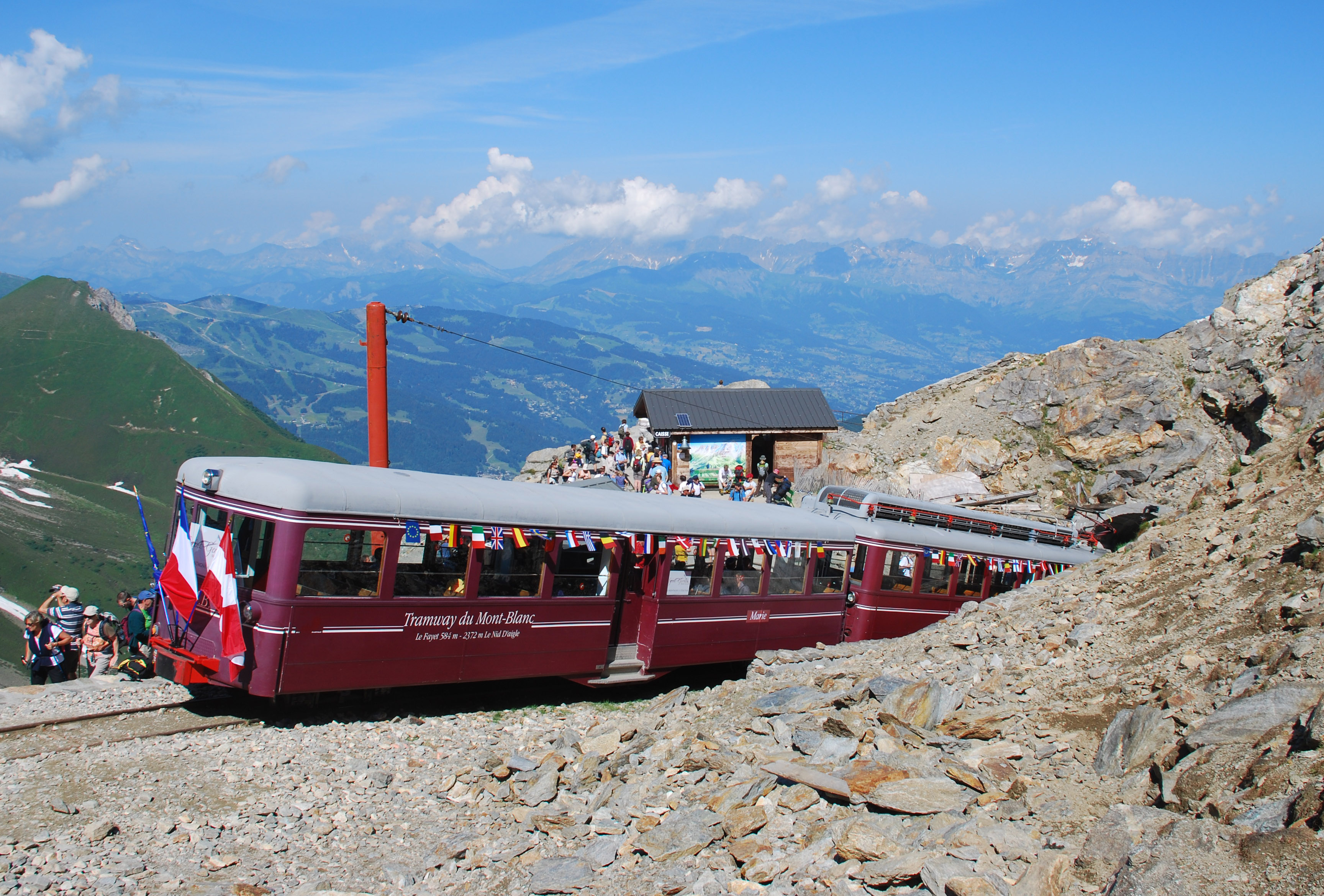 TMB's "Marie" EMU at Le Nid d'Aigle